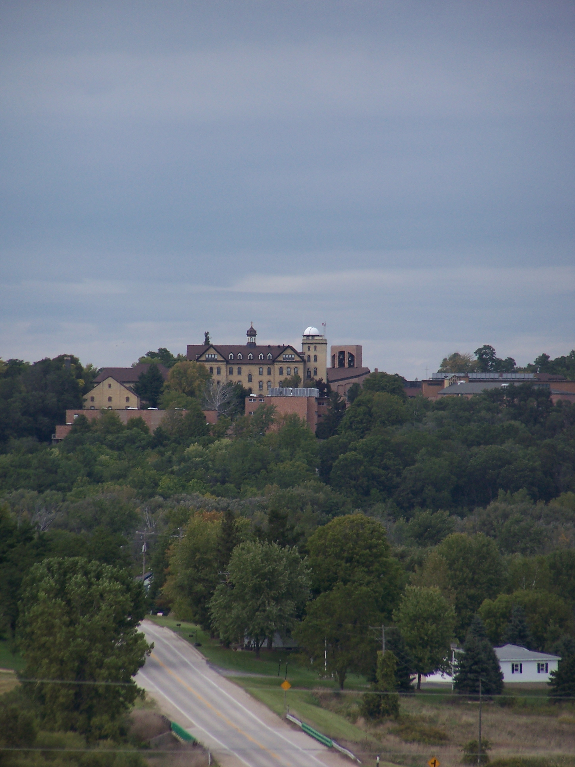 A view of St. Lawrence Seminary in Mt. Calvary, WI from County Trunk W.